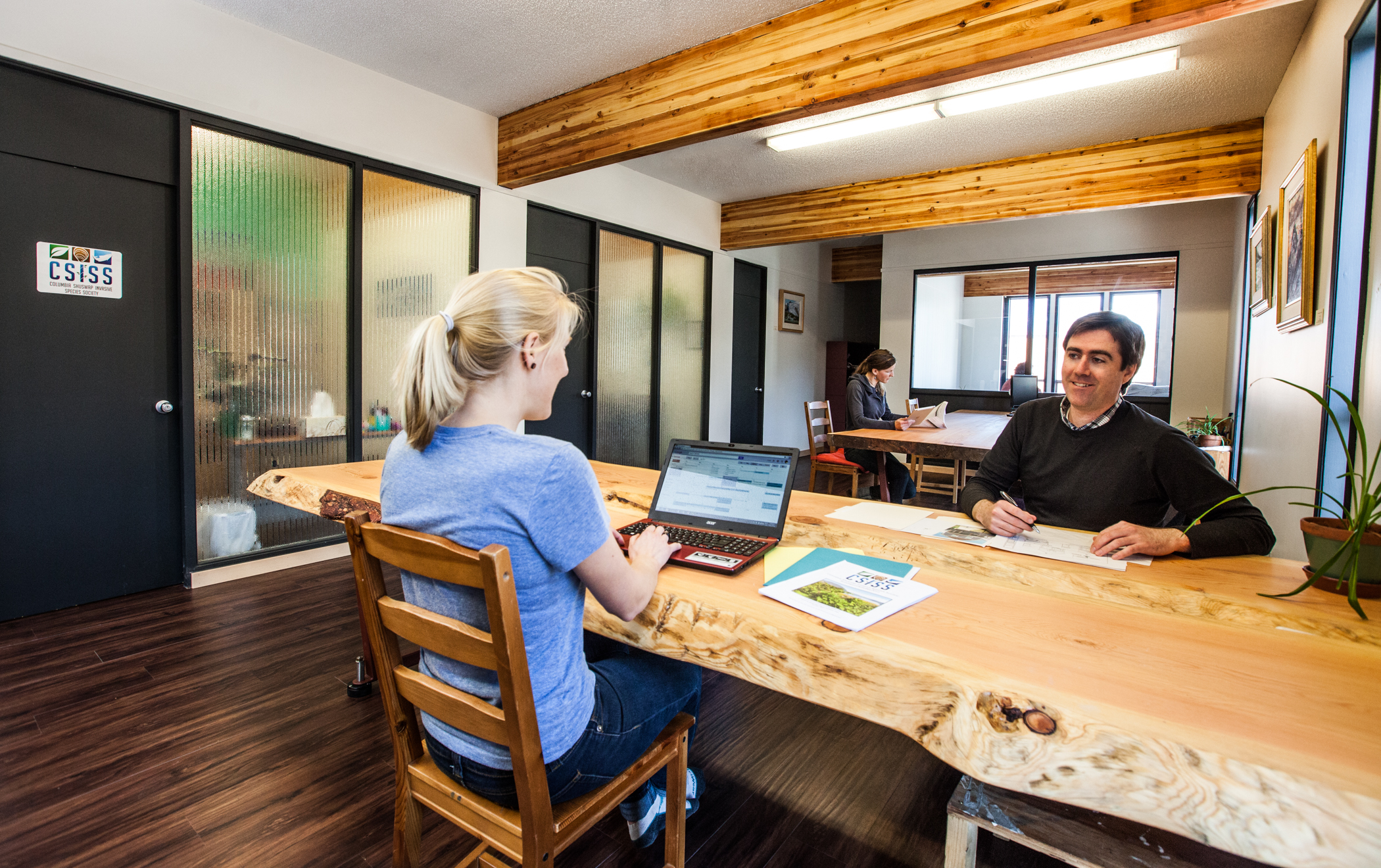 Coworking